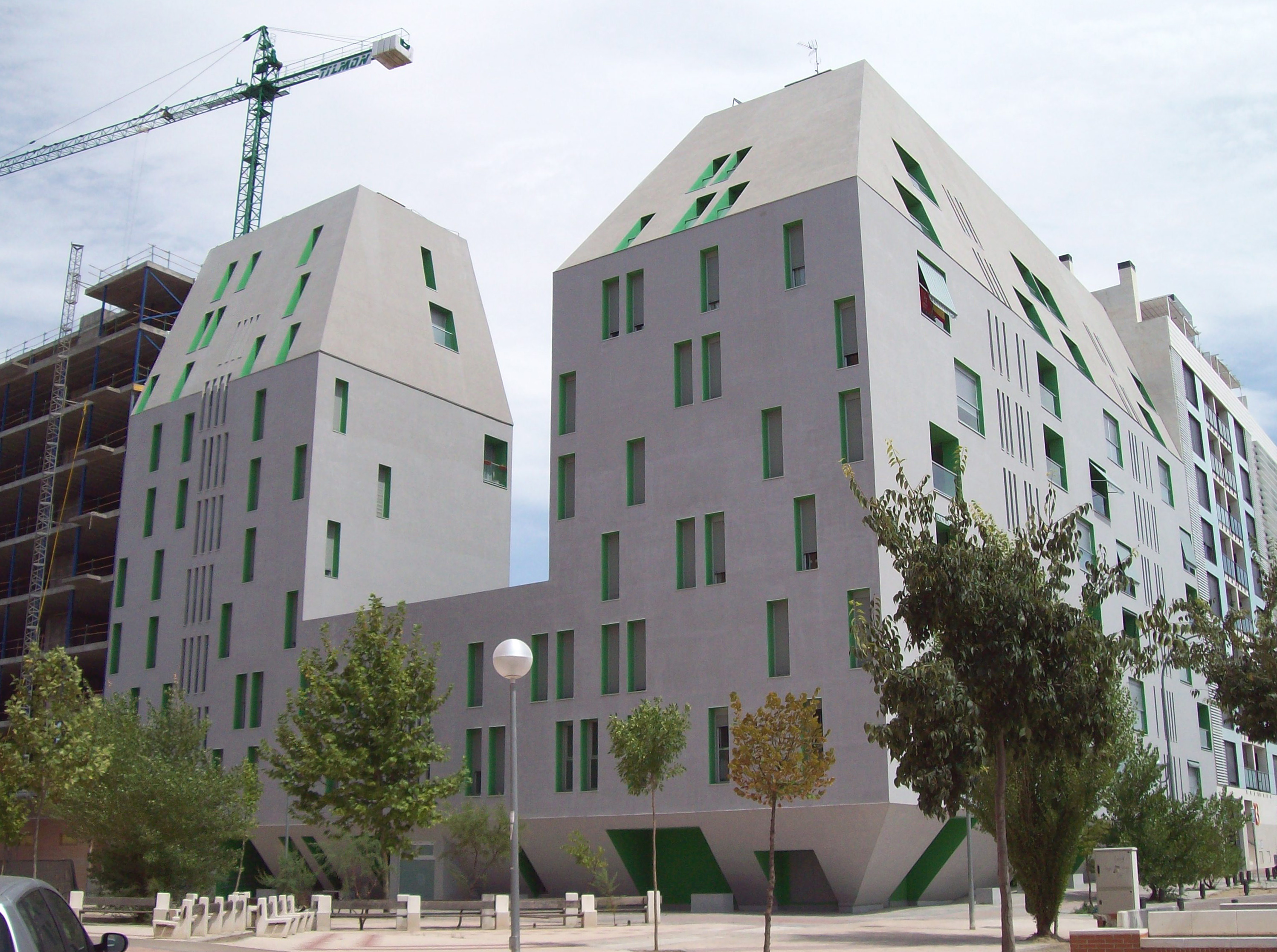 View of Vallecas 37 building in Madrid (Spain) from the west angle.